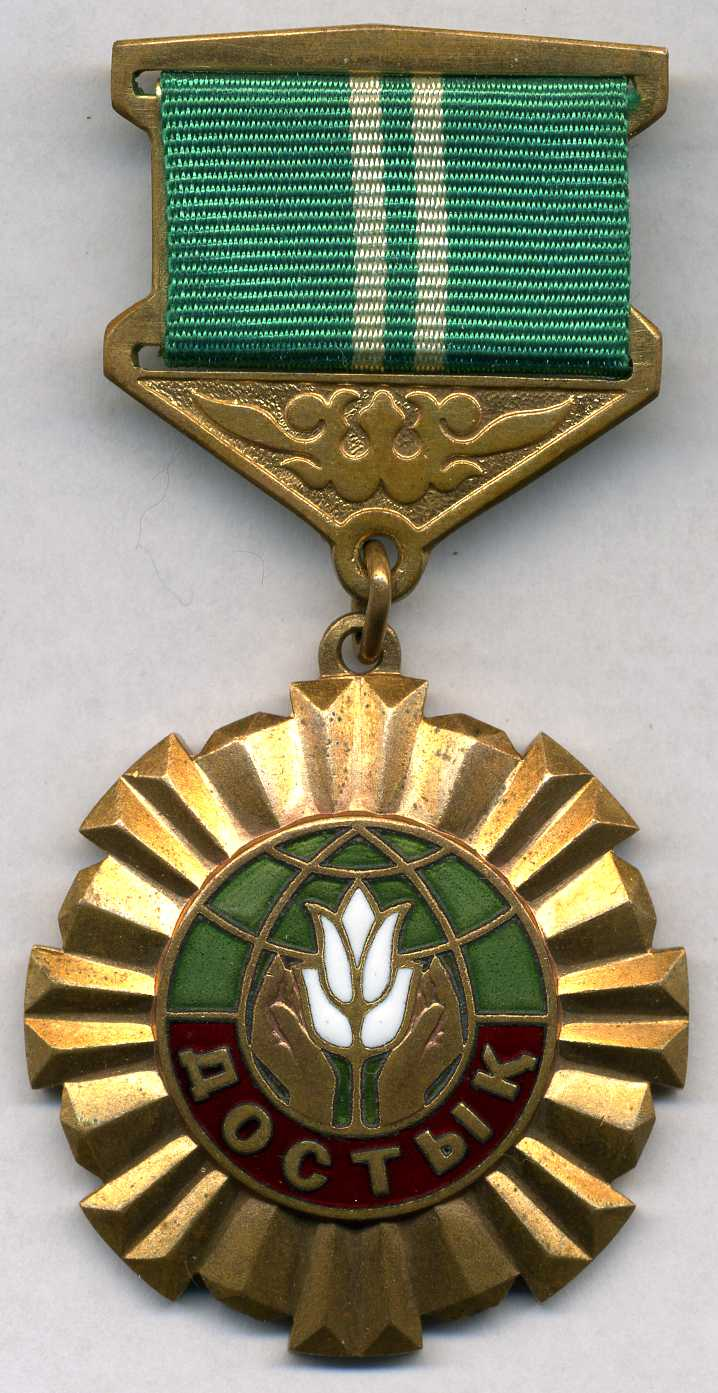 Award "Piace" (Достык) of Republic Kazakhstan. A sign on an old sample.